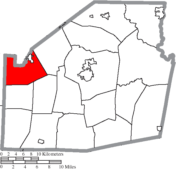 Map of the municipal and township boundaries of Highland County, Ohio, United States, as of the 2000 census, with the location of Dodson Township highlighted. Township borders are shown only in unincorporated areas in order to differentiate incorporated and unincorporated areas more clearly.